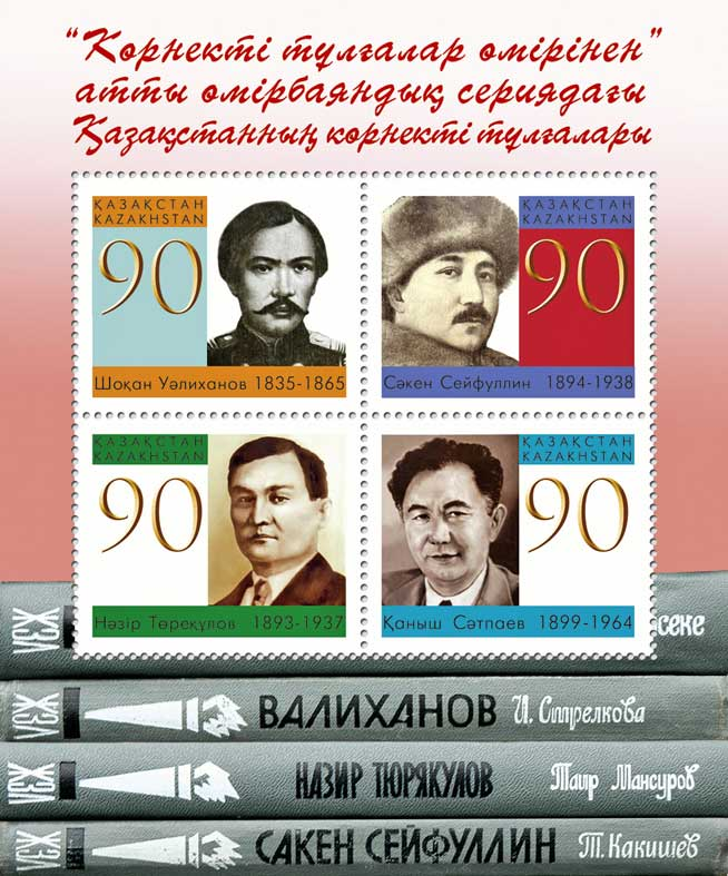 Stamp of Kazakhstan